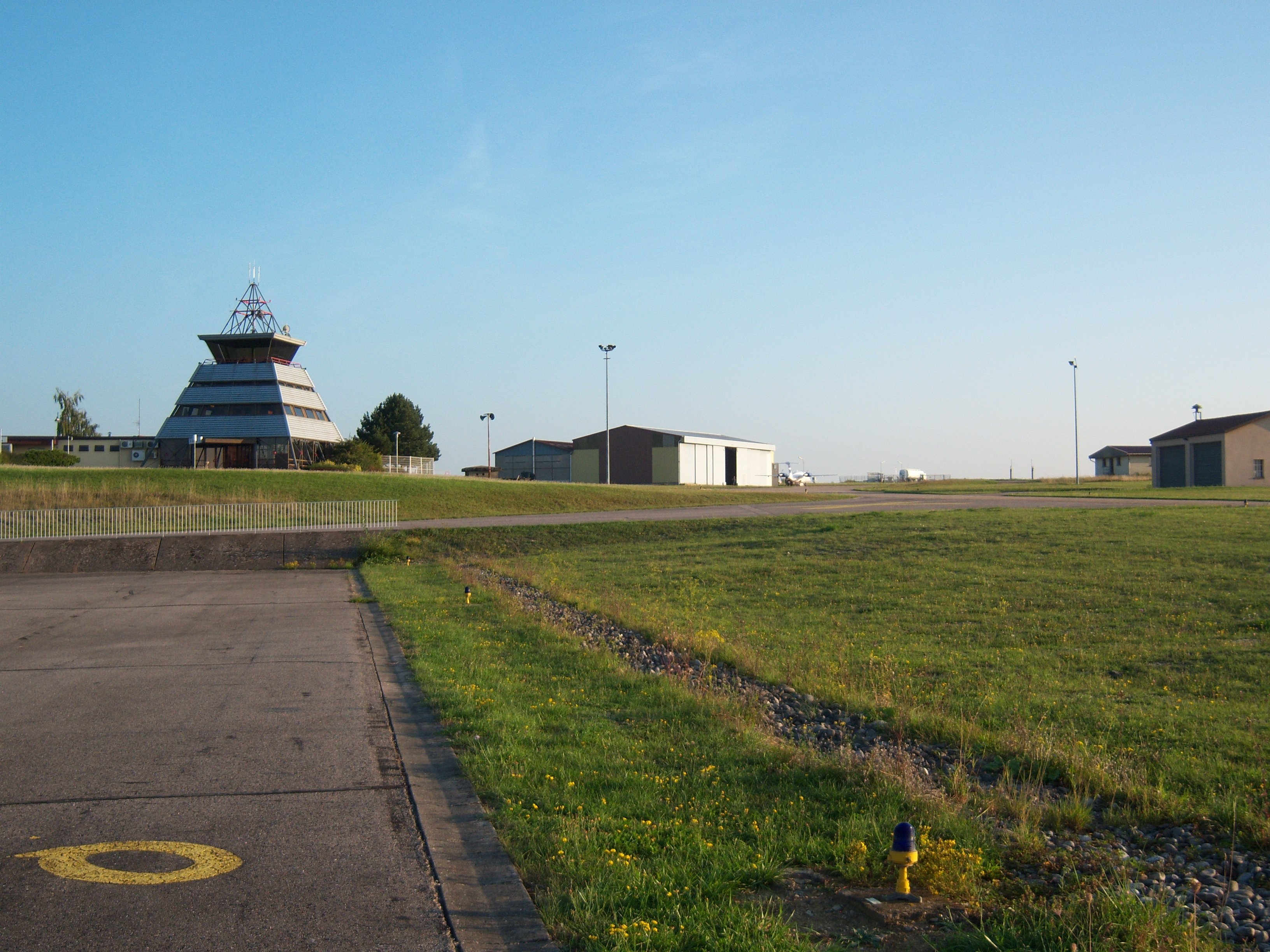 Airport tower, Epinal-Mirecourt (LFSG)